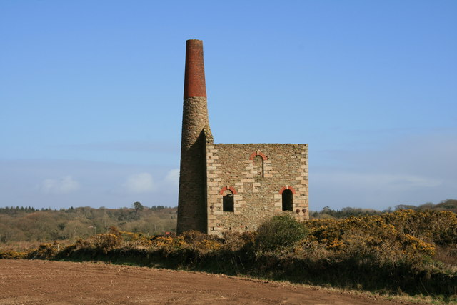 Batters' Shaft, West Chiverton Great West Chiverton mine was a rich producer of lead, silver-lead and zinc, once employing around 1,000 people. This well-known local landmark on Batters' Shaft housed an 80" cylinder pumping engine from 1869. The house is unusual in having the chimney built into the centre of the back wall, meaning that the large cylinder doorway had to be built into a side wall (the other side of the house from the camera position). The engine was designed and built by Harveys of Hayle and considered to be one of the best ever made. West Chiverton was closed in 1886 but the engine went on to be used on two other mines.